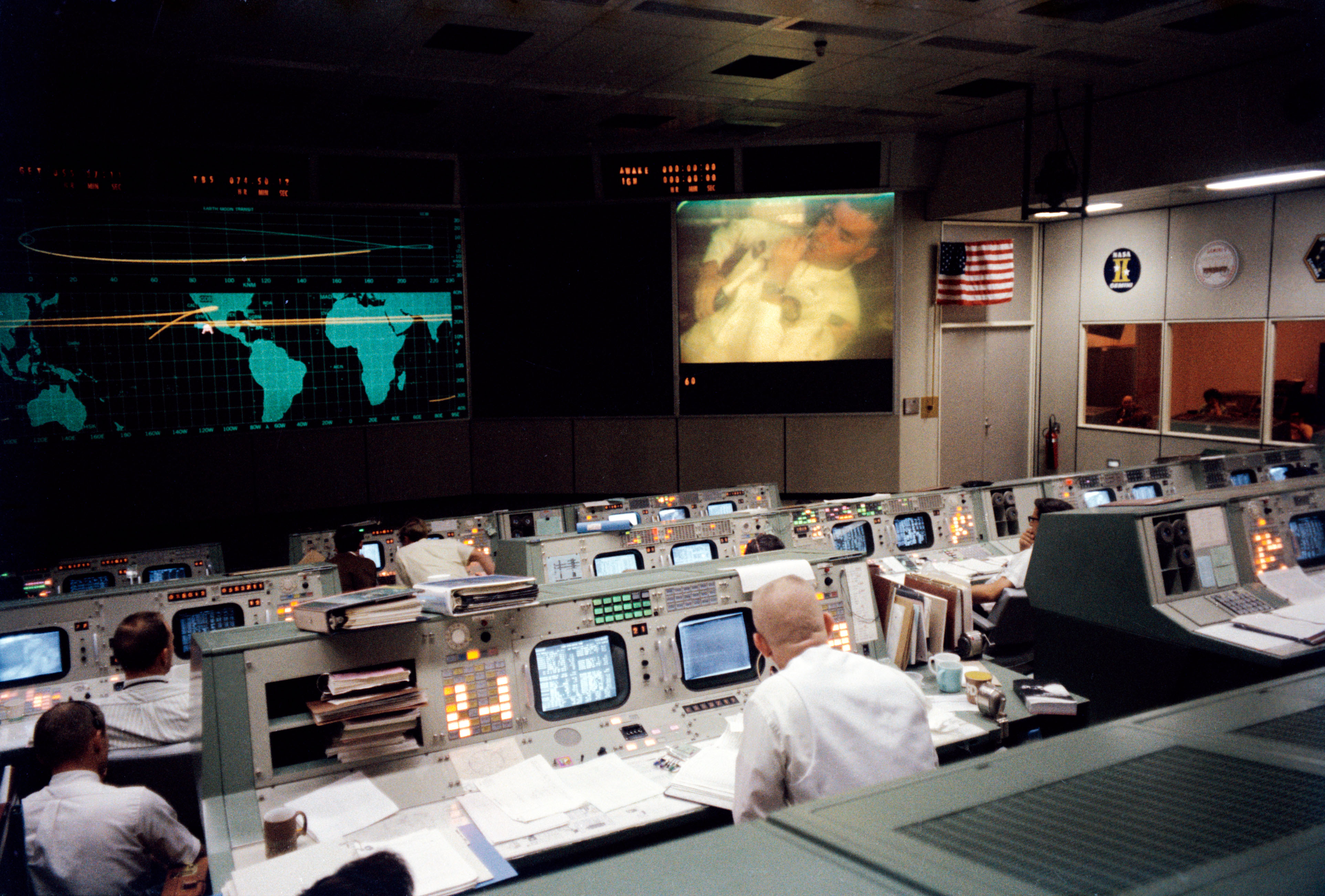 Overall view of the Mission Operations Control Room in the Mission Control Center at the Manned Spacecraft Center, during the fourth television transmission from the Apollo 13 spacecraft while enroute to the Moon. Eugene F. Kranz (foreground, back to camera), one of four Apollo 13 Flight Directors, views the large screen at front of MOCR. Astronaut Fred W. Haise Jr., lunar module pilot, is seen on the screen. The fourth television transmission from the Apollo 13 mission was on the evening of April 13, 1970. Shortly after the transmission ended and during a routine proceedure that required the crew to flip a switch that stirred one of the cryogenic liquid oxygen tanks, an explosion occurred that ended any hope of a lunar landing and jeopordized the lives of the three crew members.